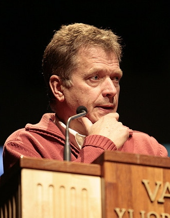 Finnish politician Sauli Niinistö